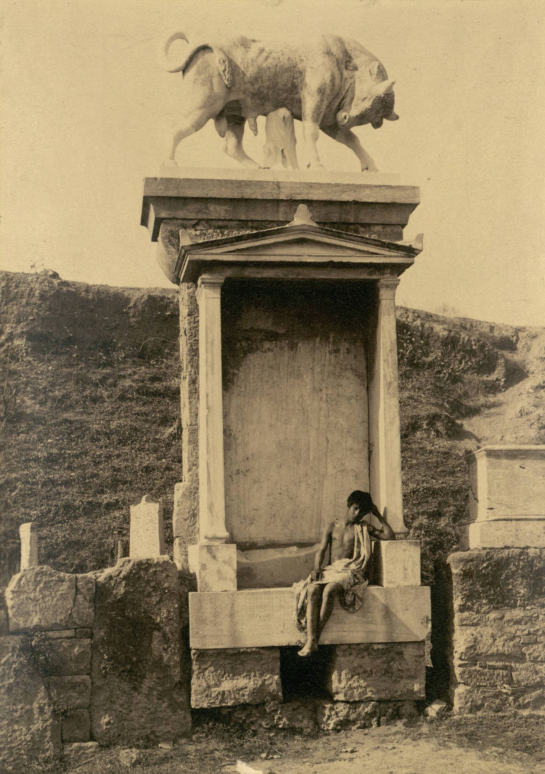 Wilhelm von Plüschow (1852-1930), Boy sitting in front of the tomb for Dionysios of Kollitos (late 4th century BC) in the Street of Tombs in the Ancient Greek Kerameikos Cemetery (Athens) (1895).